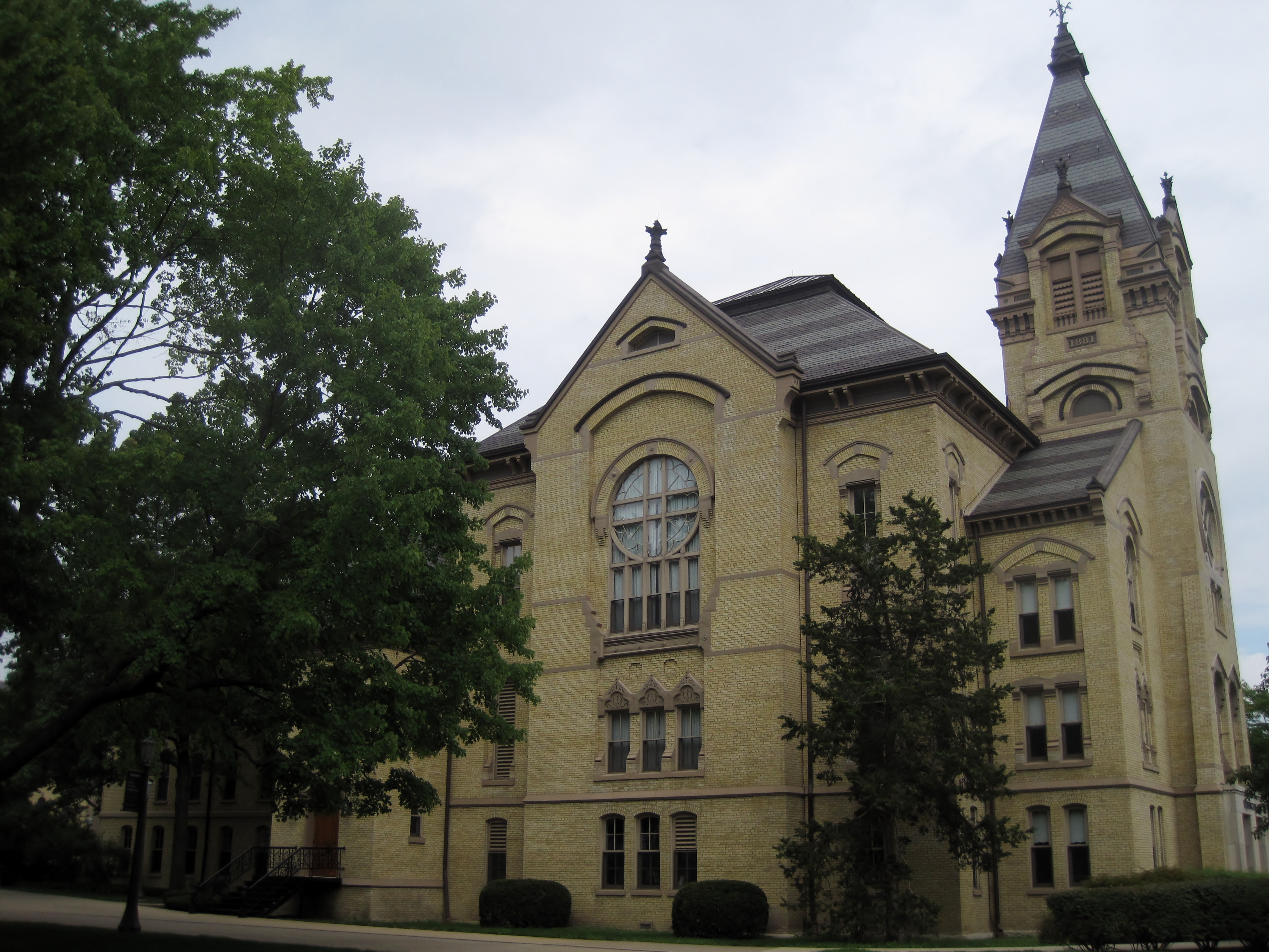 Washigngton Hall at the University of Notre Dame Campus Main and South Quadrangles in South Bend, IN (1881). It was built to replace a music hall that was destroyed in a 1879 fire. The building is best known for its octagonal theater, which seats 571.